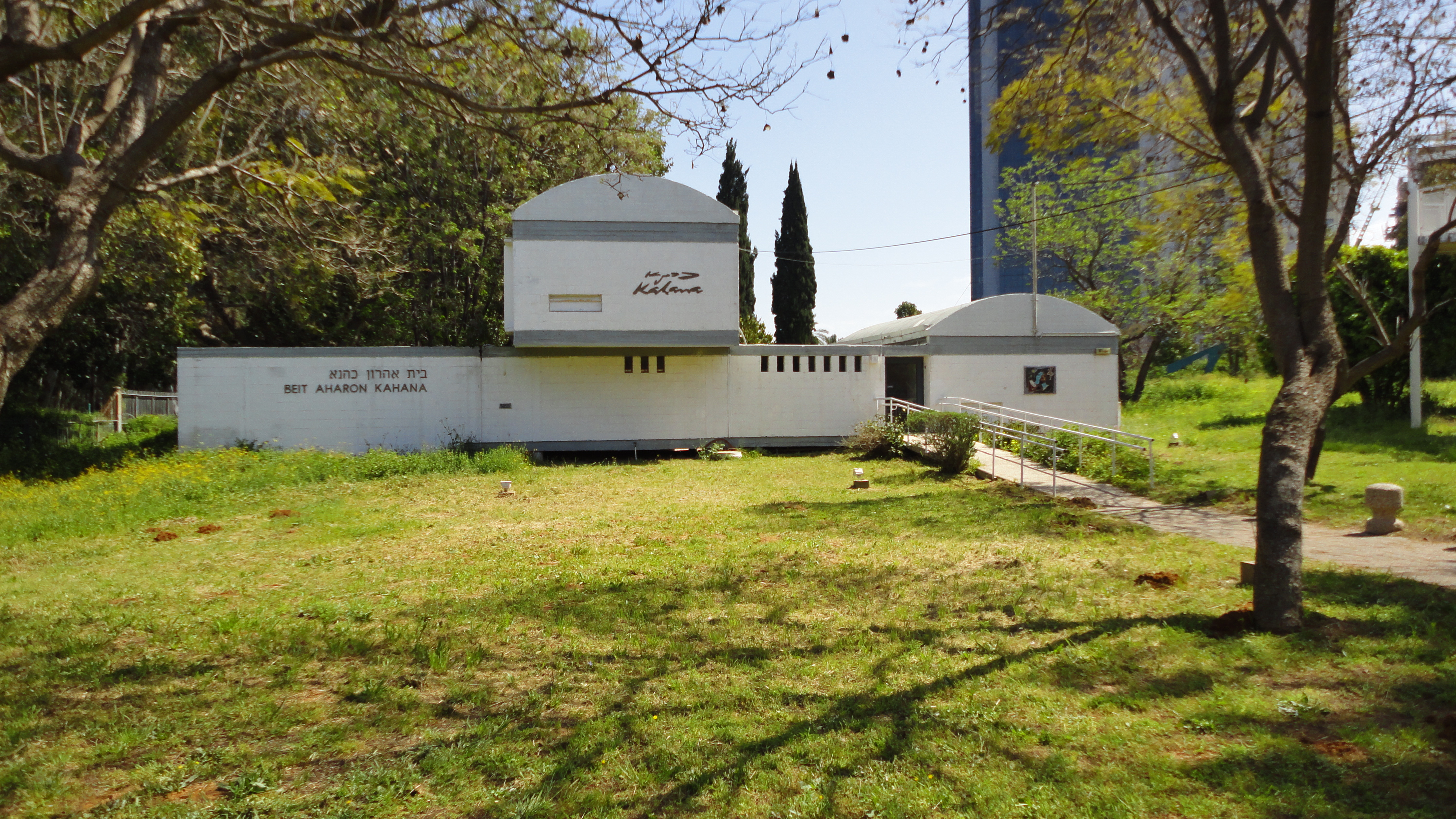 Aharon Kahana House